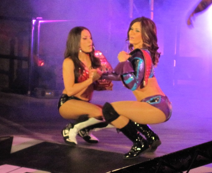 Professional wrestlers Sarita and Rosita at Impact Wrestling tapings.